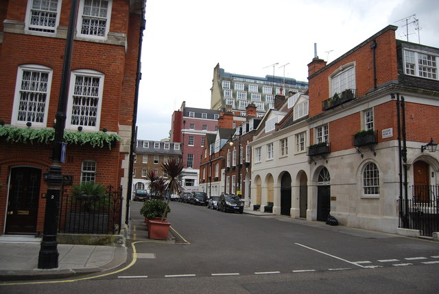 Balfour Mews